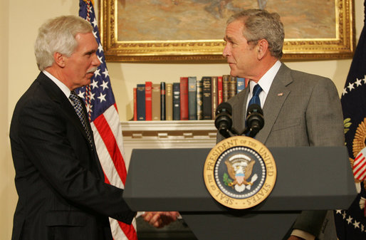 President George W. Bush shakes hands with former North Dakota Gov. Edward Schafer, his nominee for Secretary of Agriculture, during an afternoon announcement Wednesday, Oct. 31, 2007, in the Roosevelt Room of the White House.